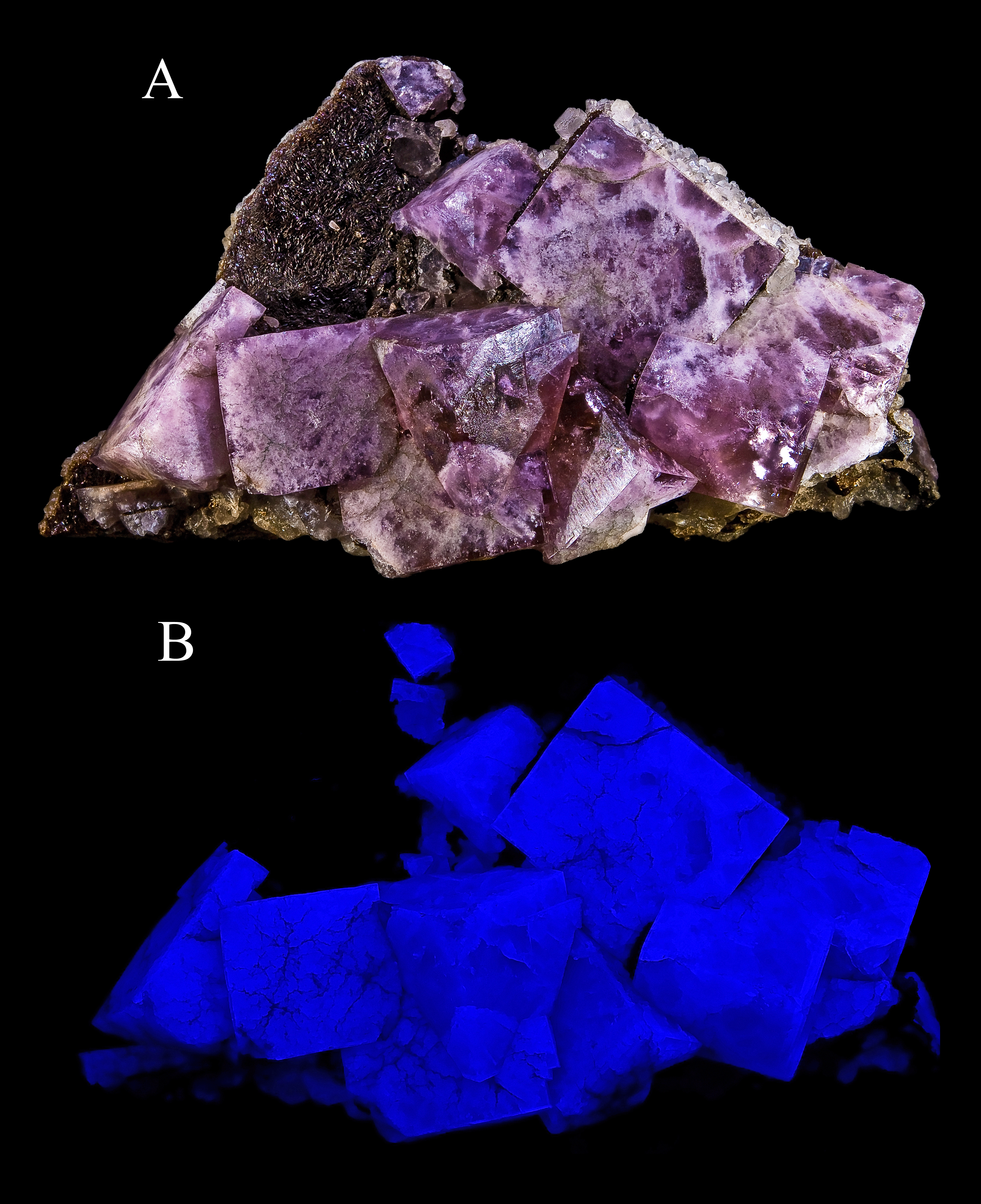 Fluorite Locality : Boltsburn Mine, Rookhope District, Weardale, North Pennines, Co. Durham, England, UK (15x8cm) A:Daylight B:Ultraviolet light